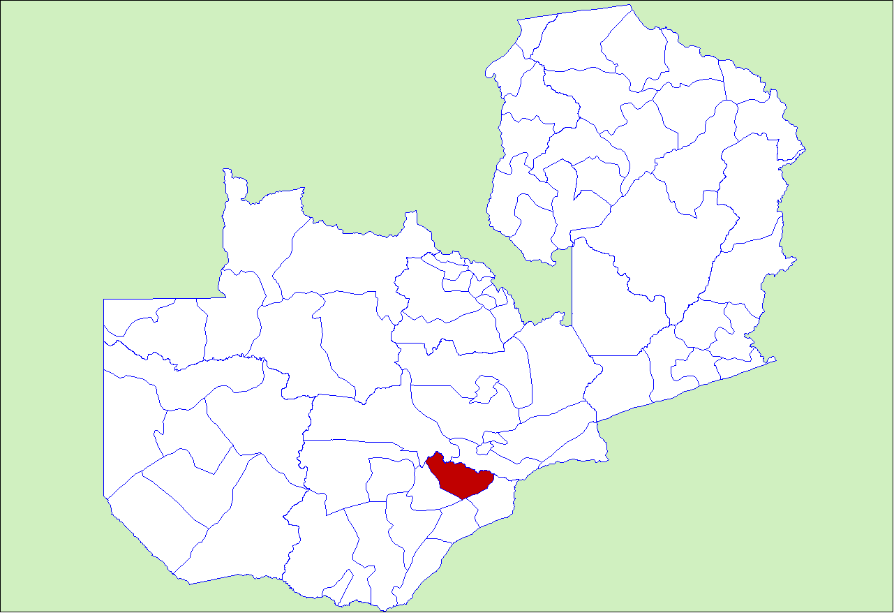 District locator in Zambia